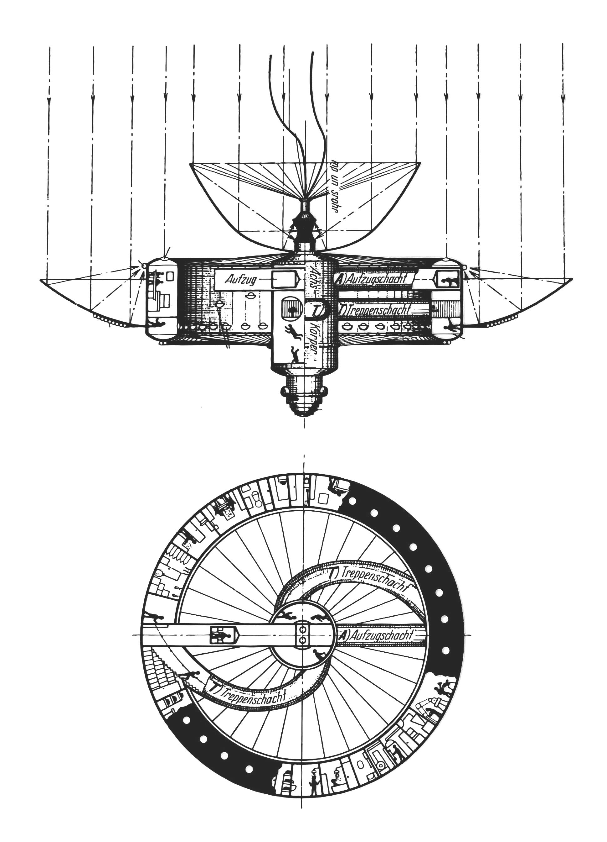 Noordung space station. Treppenschacht=Stairwey. Aufzug=Elevator. Aufzugschacht=Elevator shaft. Achskörper=Axle.